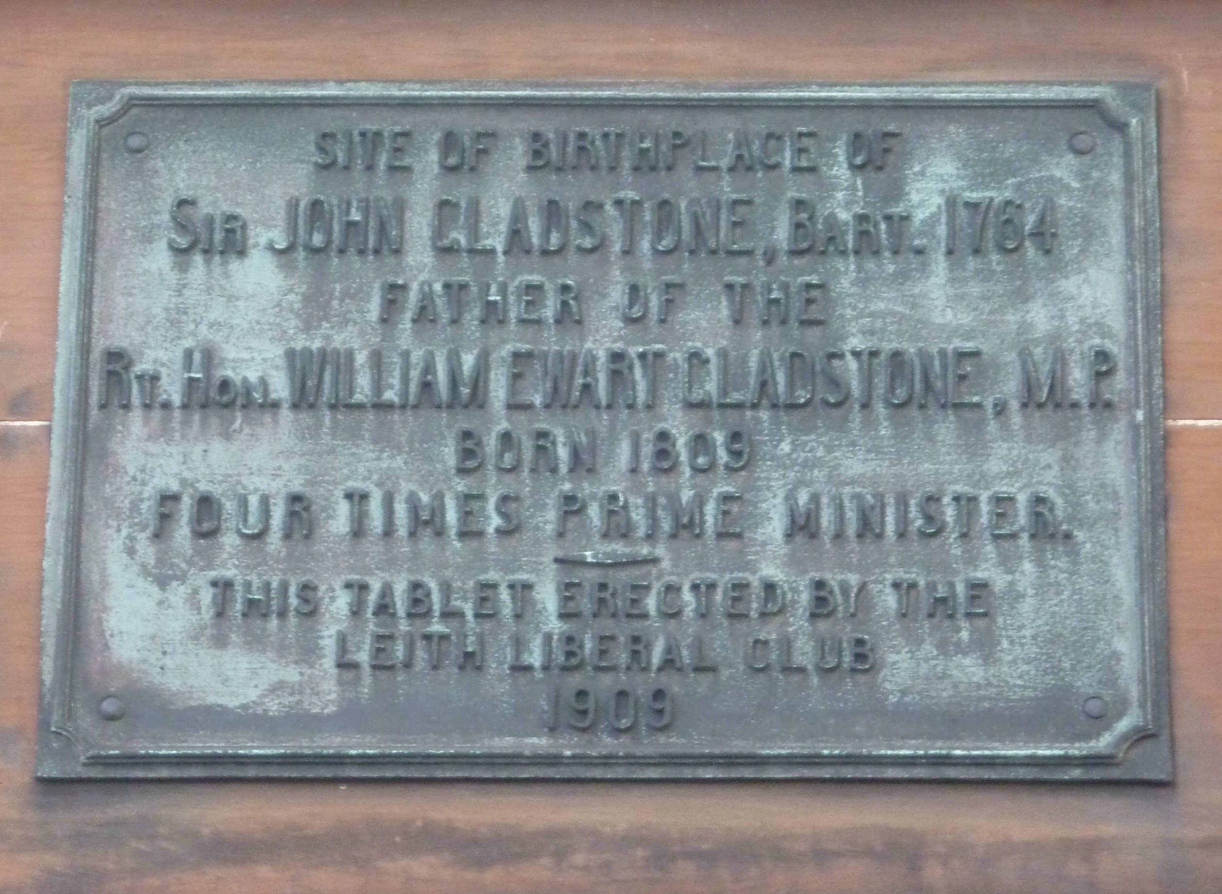 Plaque on the corner of Great Junction Street and King Street commemorating the birthplace of John Gladstone, father of the great 19thC British Liberal prime minister William Gladstone. John began his business activities in Leith and made his fortune trading in corn, cotton and sugar, whilst making full use of the free labour made possible by the trans-Atlantic slave trade.